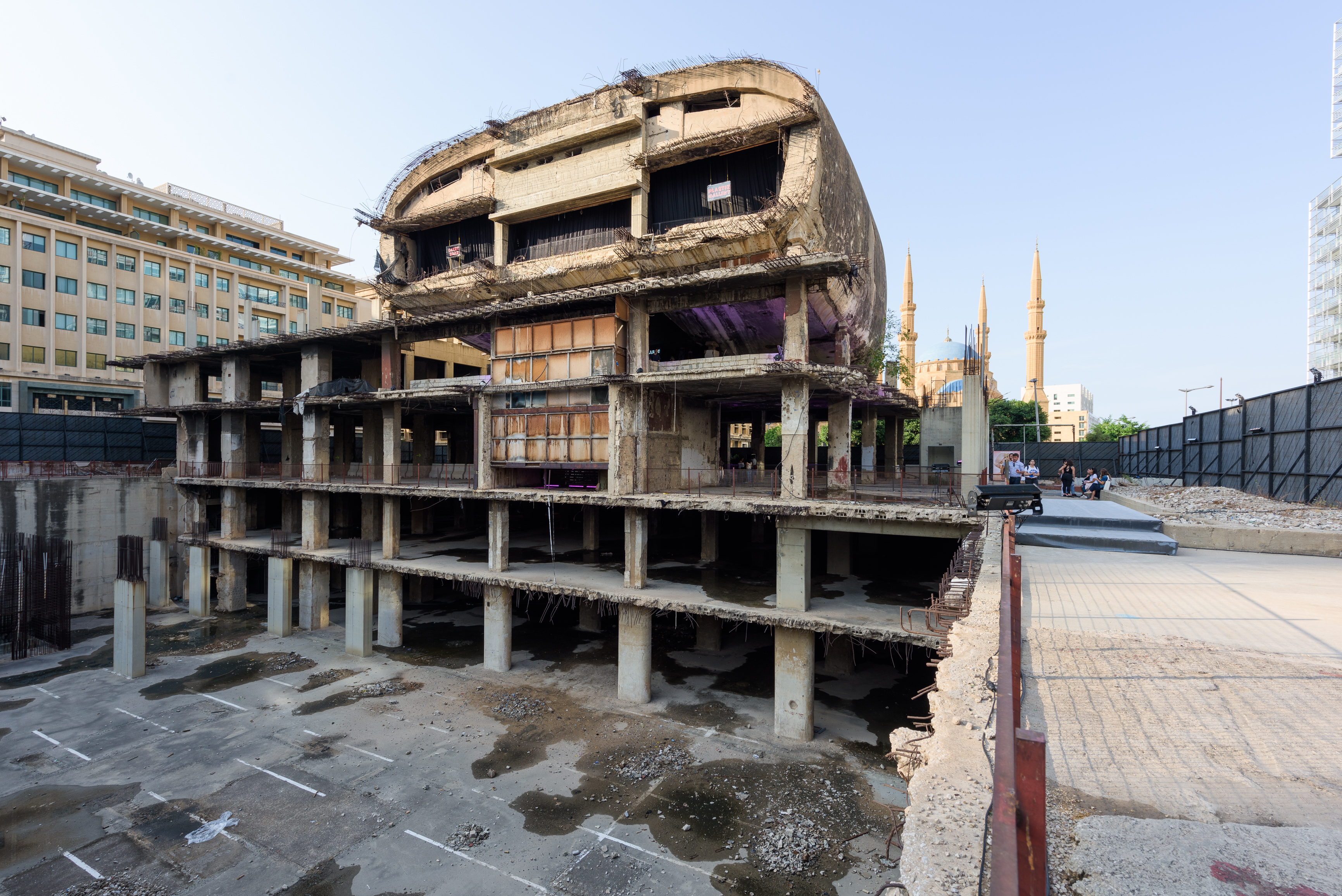 The northern facade and underground parkings of the unfinished Egg building in Beirut, Lebanon